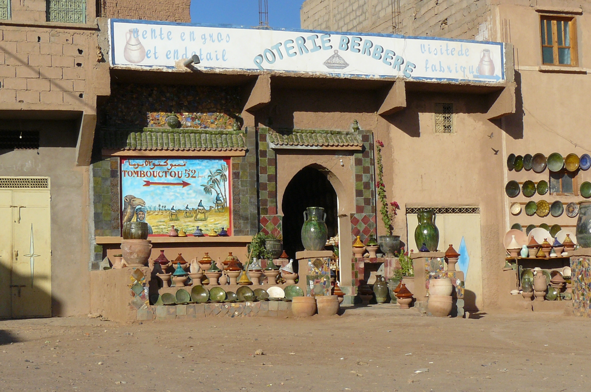 Pottery Shop in Tamegroute